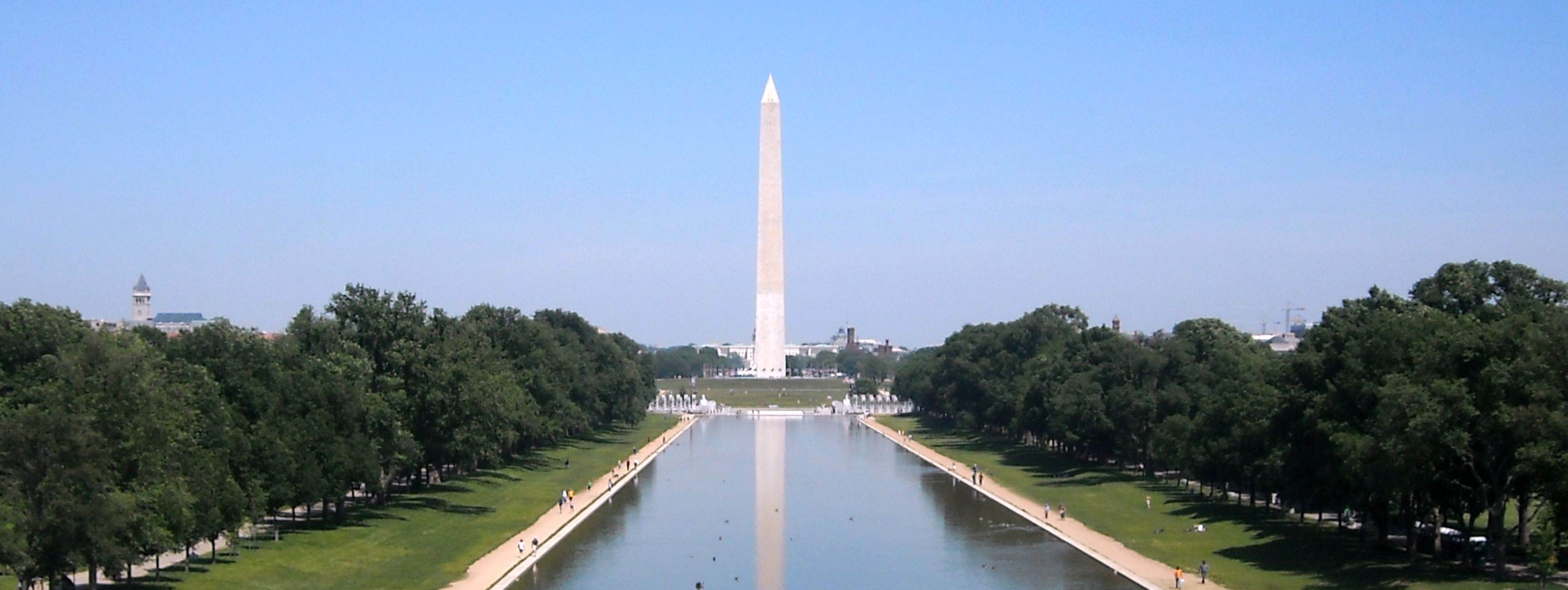 Washington Monument in Washington, D.C. The Reflecting Pool is in the foreground and the Old Post Office tower is on the far left.